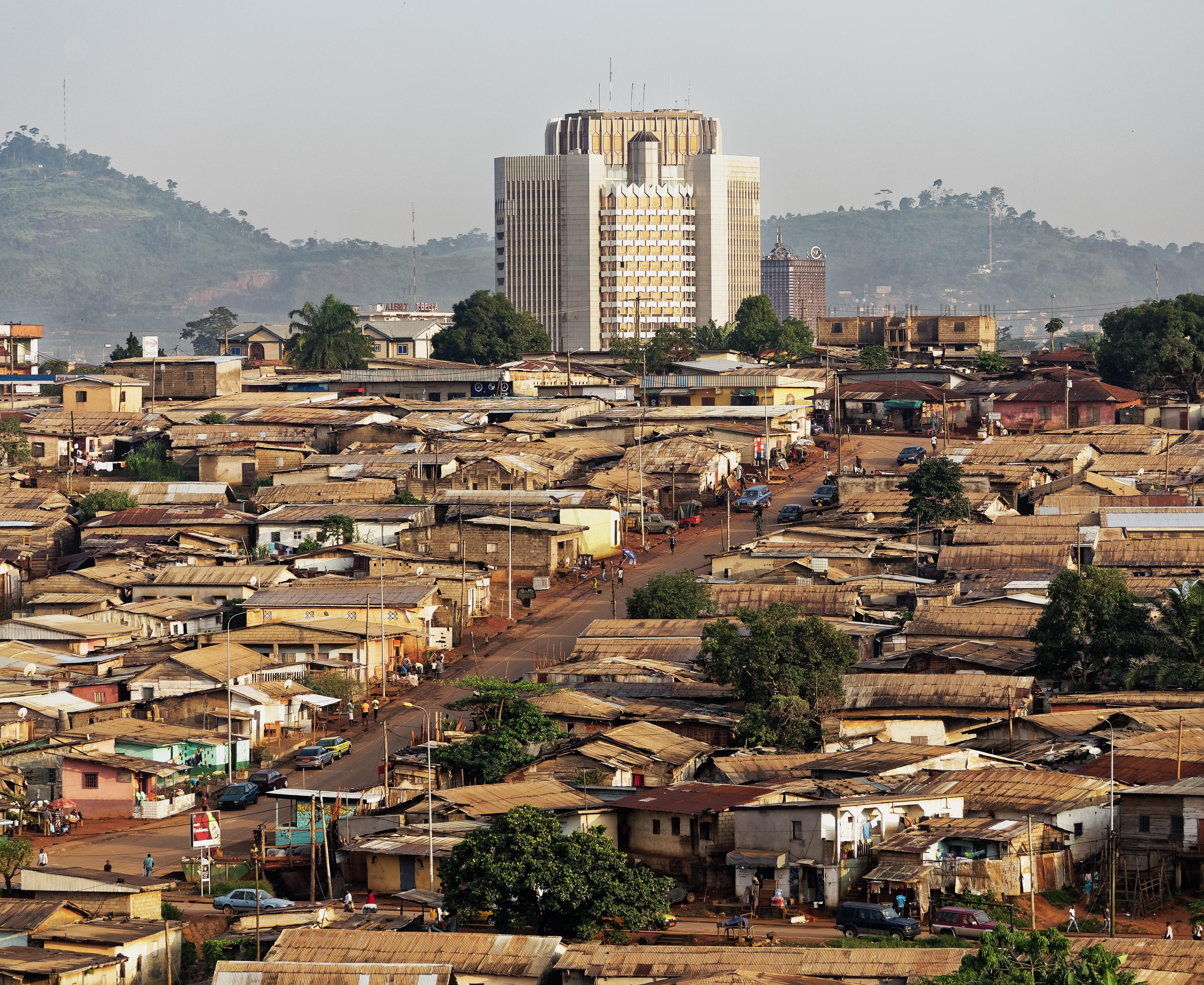 The Bank of Central African States with surrounding area, Yaounde, Cameroon.